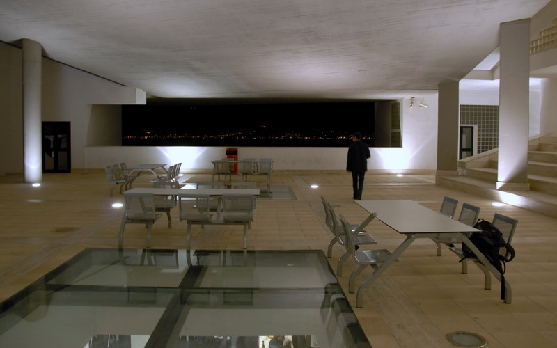 Mediclub at Mediterranea University of Reggio Calabria